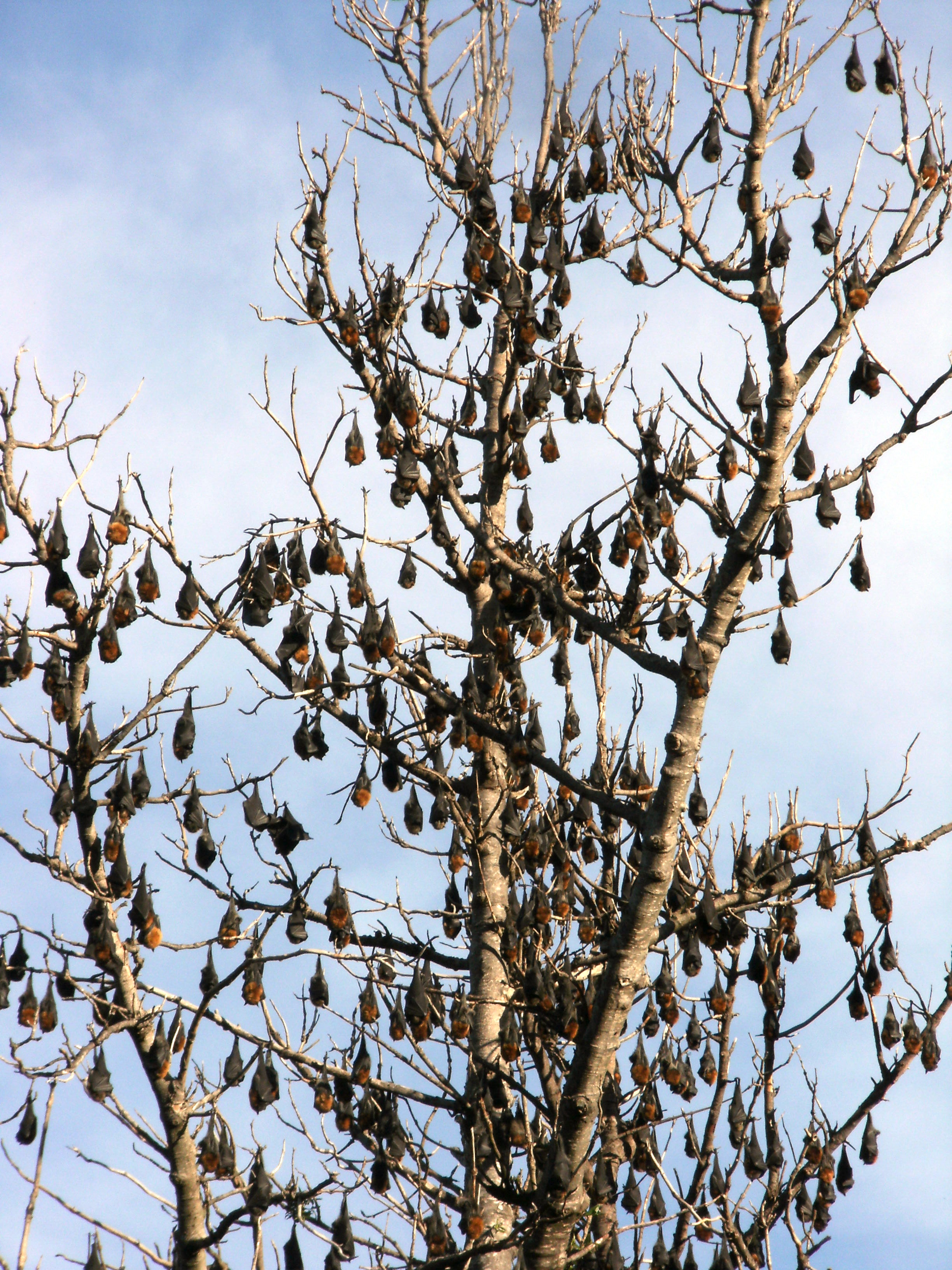 Flying Foxes at the Botanic Gardens